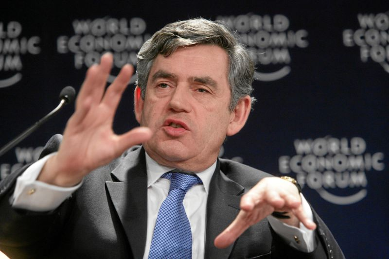 Gordon Brown, in Davos 2007